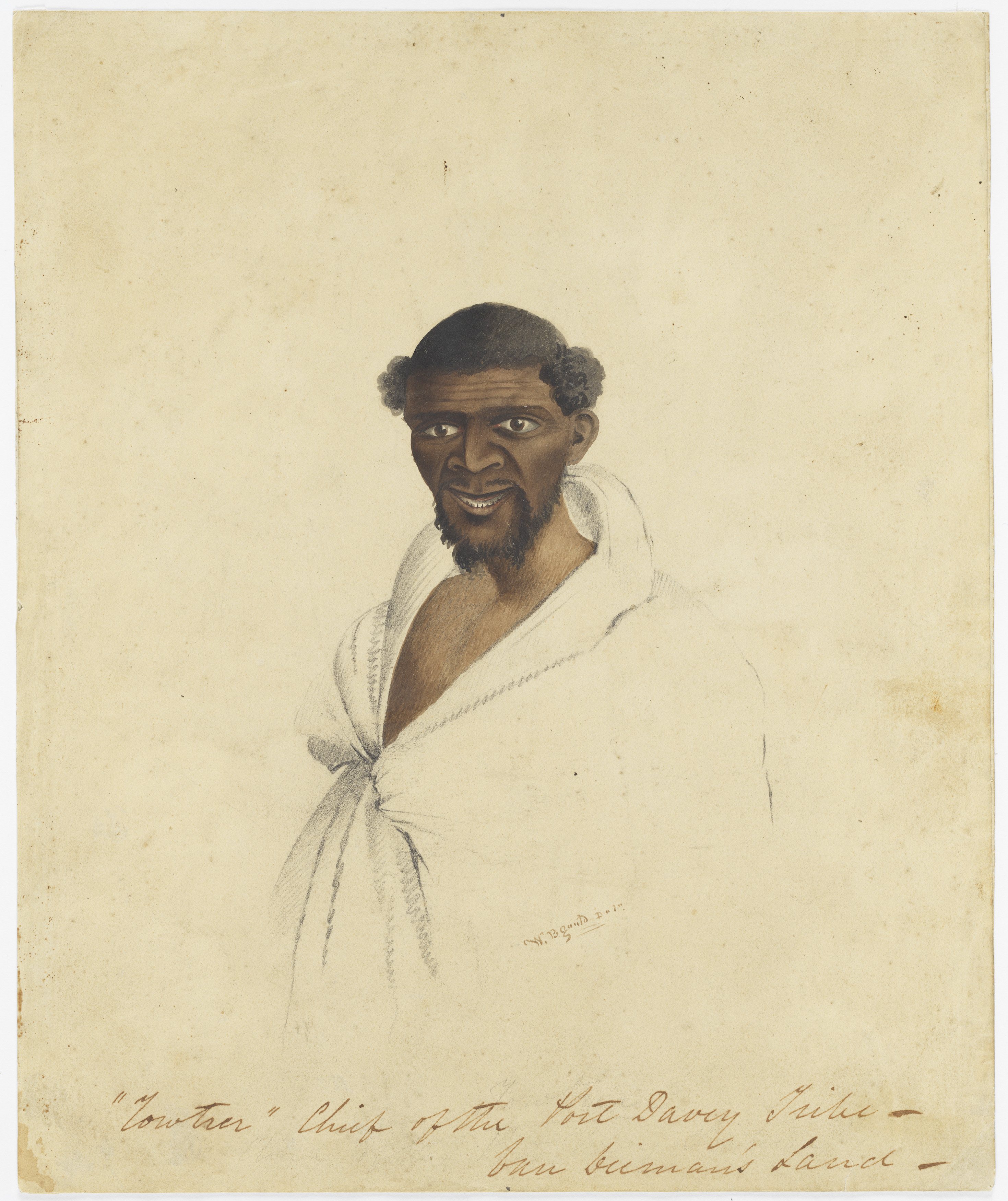 Towtrer Chief of the Port Davey Tribe, Tasmania, c.1933, W.B. Gould, State Library of New South Wales V/91}